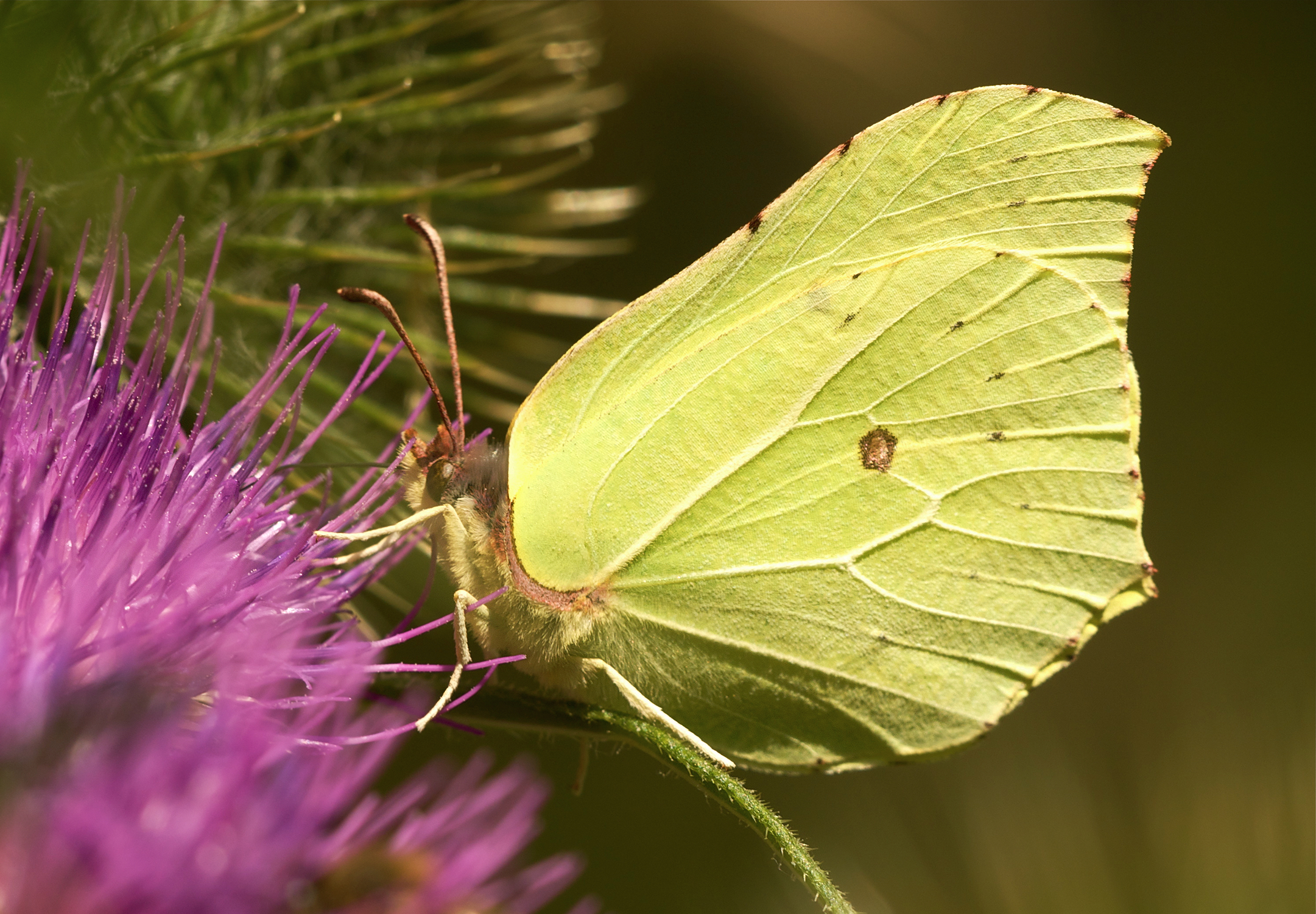 Brimstone (Gonepteryx rhamni), Tharandt forest, Germany